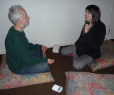 Two people in a CCI (Co-Counselling International) session, the man is in the role of "counsellor"